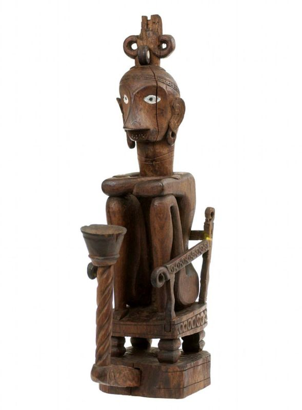 Wooden ancestral sculpture